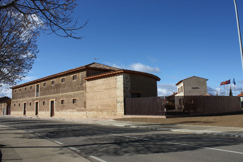 Flour Mill Museum